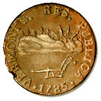 Photograph showing the obverse of Vermont copper coin of 1785. Department of the Treasury, United States Mint.